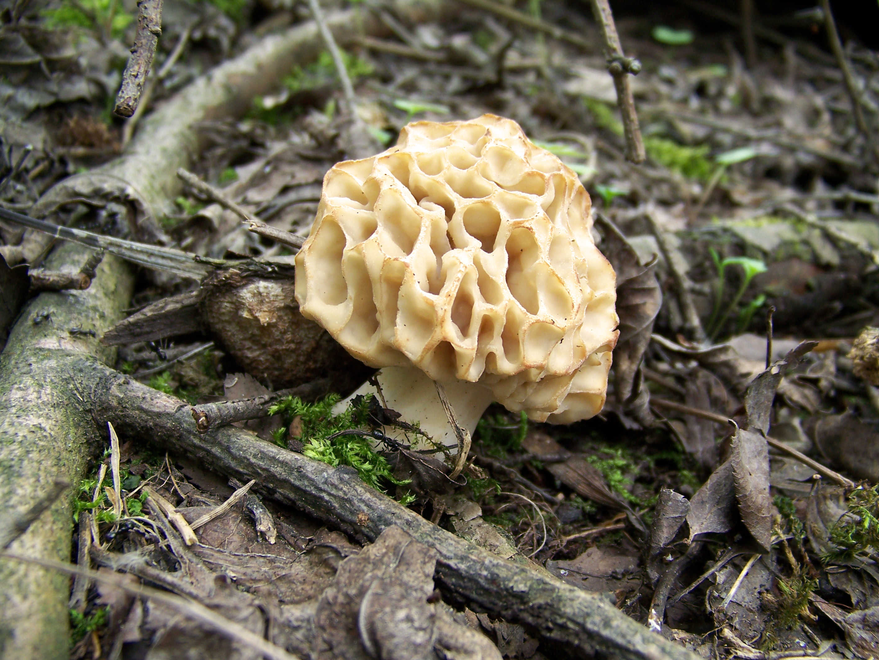 Yellow Morel (Morchella esculenta), found at Saale-Holzland district, Thuringia, Germany.